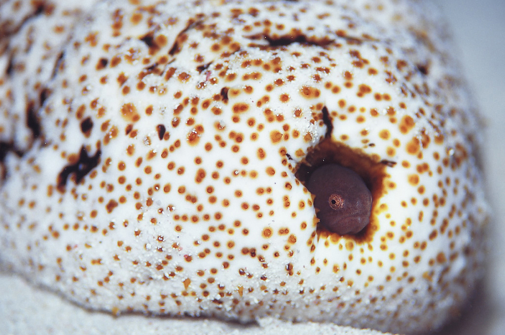 A Pinhead Pearlfish, Encheliophis boraborensis, at Kaltim, Indonesia - night dive